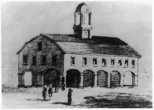 This is a drawing of the Old Royal Exchange building in New York City, formerly located in Broad Street near the intersection with Water Street.